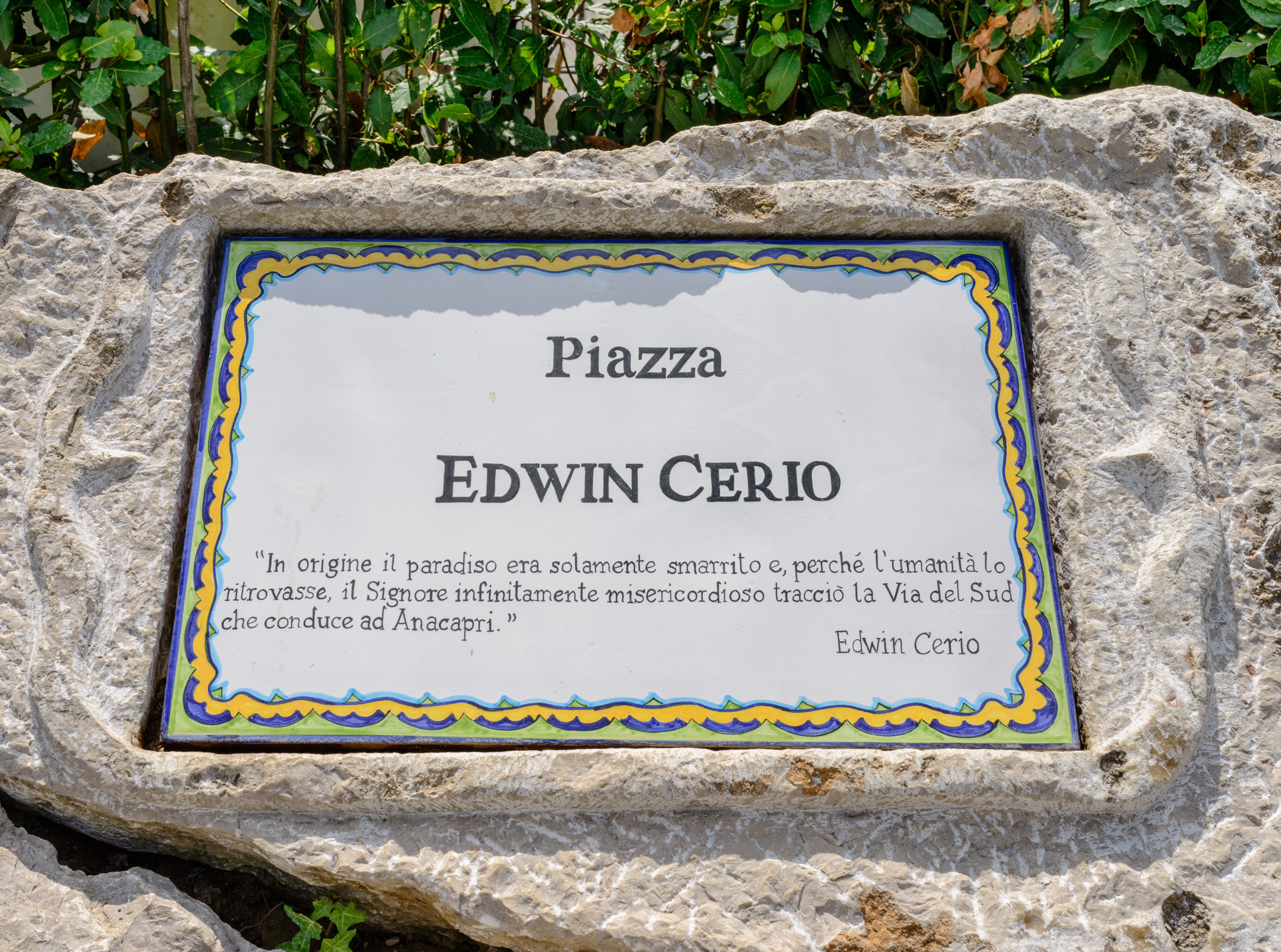 Piazza Edwin Cerio, Anacapri, Capri island, Campania, Italy.